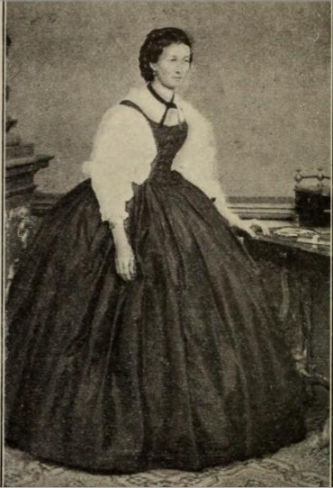 Portrait of Soldos Emília